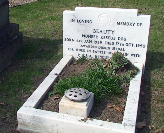 Still from a video (2010-09-01) taken with Sony HDR-HC7E camcorder, cropped and processed in Photoshop CS2 (2010-09-02).